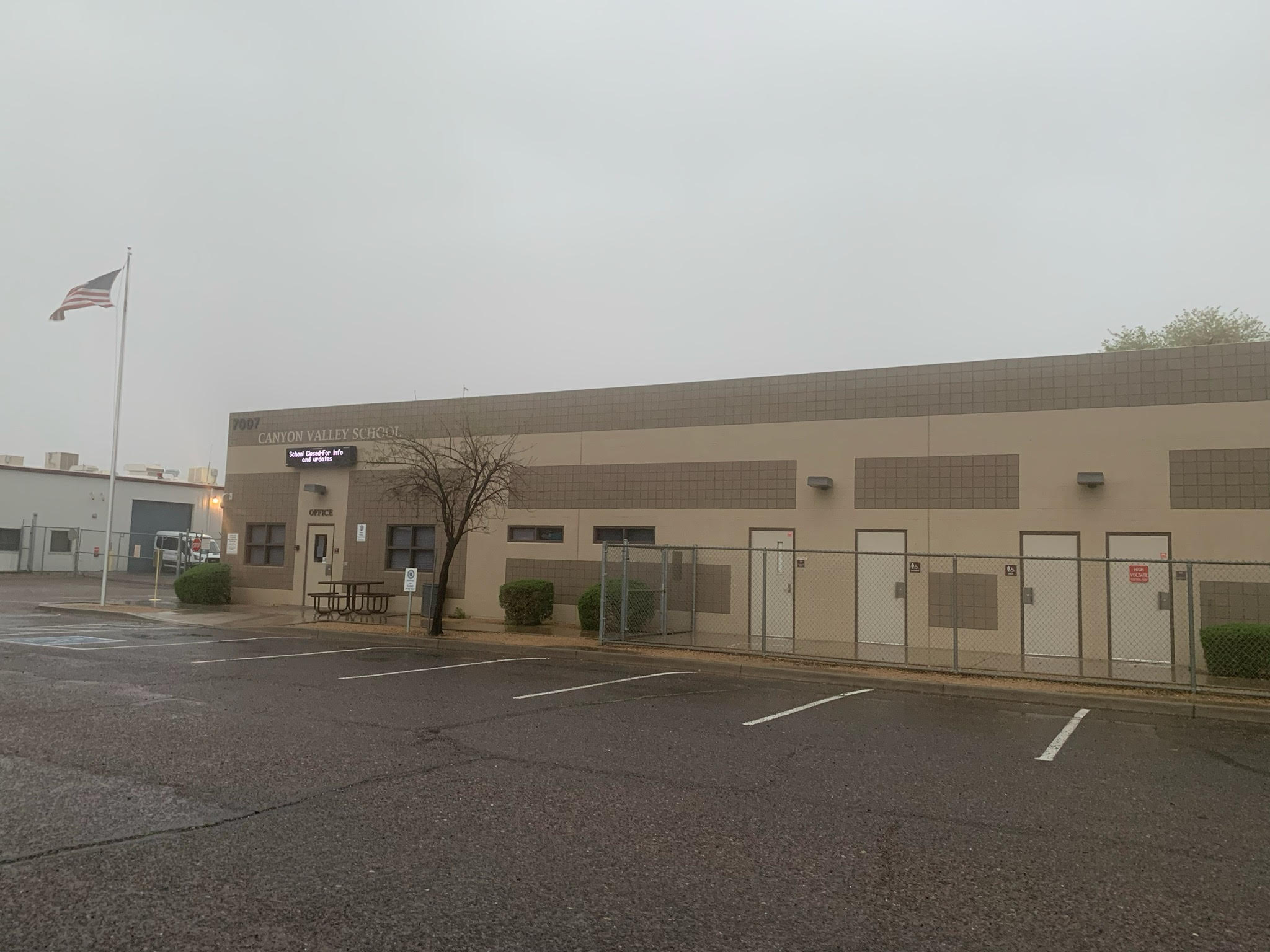 Canyon Valley School